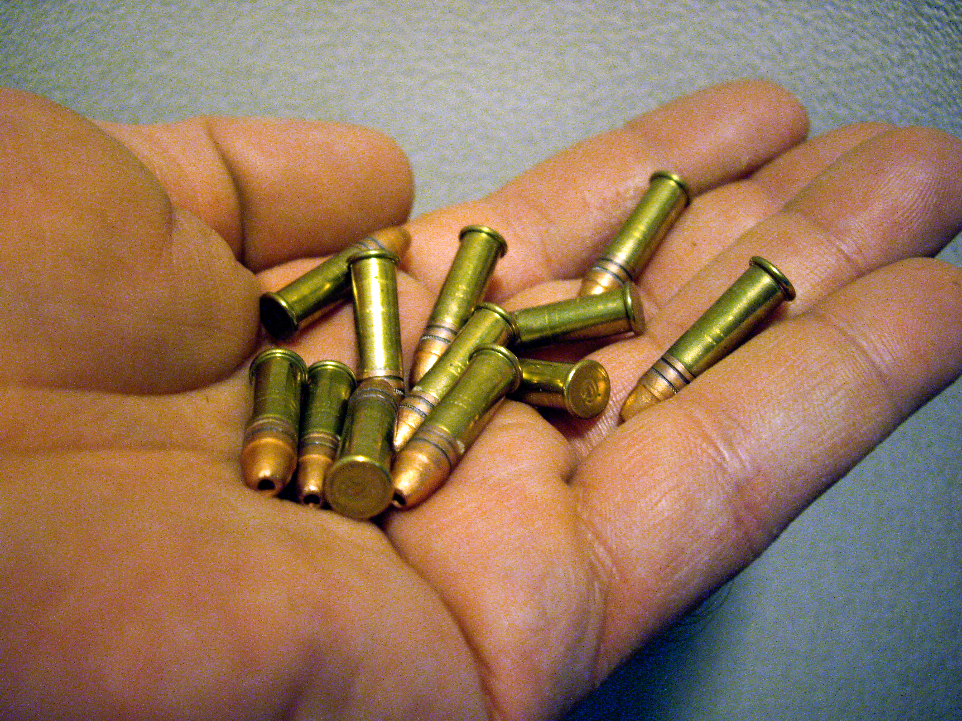 a handful of .22 Long Rifle catridges